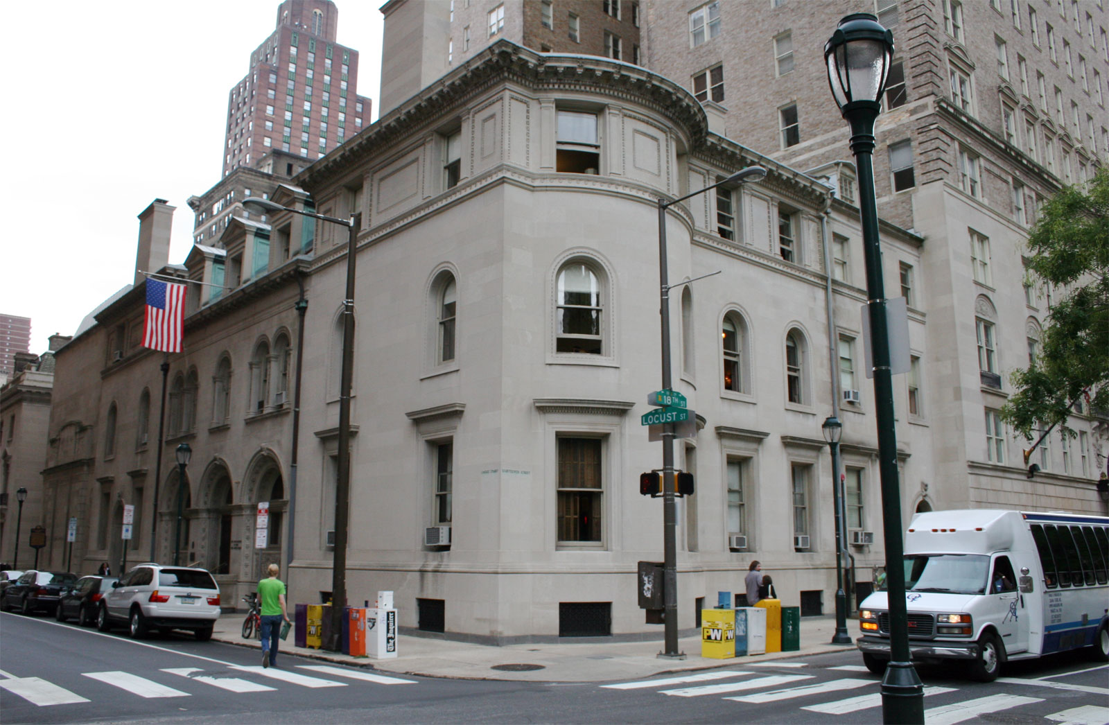 Curtis Institute of Music, Philadelphia, PA (Summer, 2006). Alsandro 10:46, 21 January 2007 (UTC)